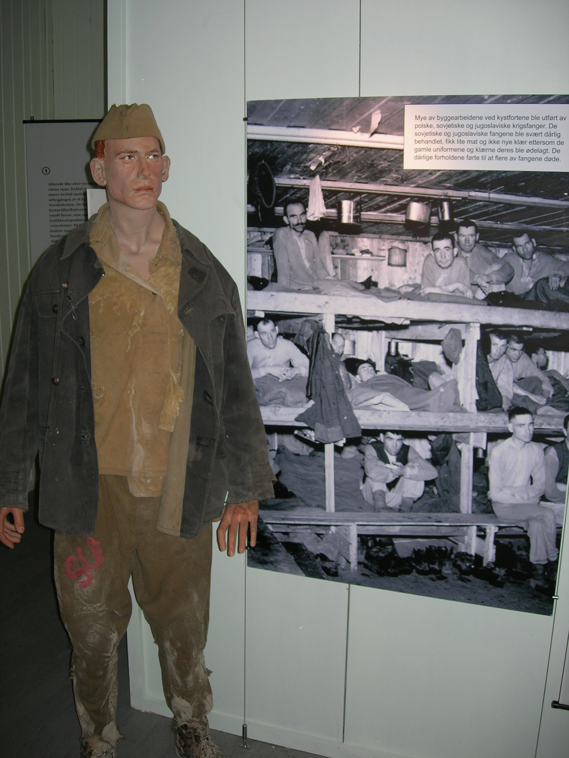 Utstillingen ved Helgeland Museum